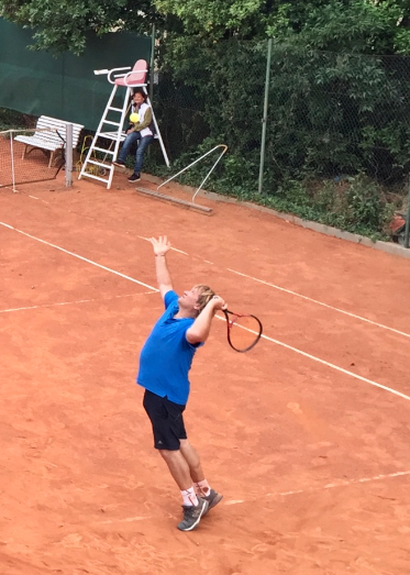 Misel Klesinger playing friendly match with Kell Klesinger at Klesinger tennis residence in Murine